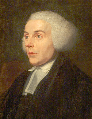 Portrait of Joseph Priestley by Ozias Humphrey (1742–1810).